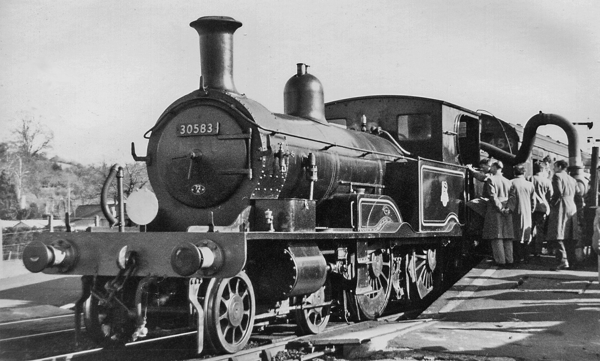 EX-LSW 4-4-2T on Rail Tour at Tipton St Johns View SE, towards Exmouth and Sidmouth: ex-LSW Sidmouth Junction - Sidmouth/Exmouth branch. No. 30583 was one of the LSW Adams '0415' class 4-4-2Ts which survived much longer than most of the class as it was needed for working on the lightly-built Lyme Regis branch. It was built 3/1885 as No. 488, then as No. 0488 in the Duplicate list was withdrawn in 9/17 and sold to the Ministry of Munitions who employed it at the Ridham Salvage Depot, Sittingbourne. In 4/19 it was bought by the East Kent Light Railway and numbered 5. It worked on that line for 18 years, then lay derelict at Shepherdswell for two years. However, it was re-acquired by the SR eventually in 3/46, restored after the War and put to work on the Lyme Regis branch in 12/46, where it worked until 7/61. Its life was not however ended even then, for it was purchased by the Bluebell Railway - where it still remains. This 1953 occasion was a Rail Tour arranged by Ian Allan Ltd., with (intended) high-speed runs from Waterloo to Exeter (Central) and back, with an auxiliary tour to Exmouth and back via Sidmouth Junction.